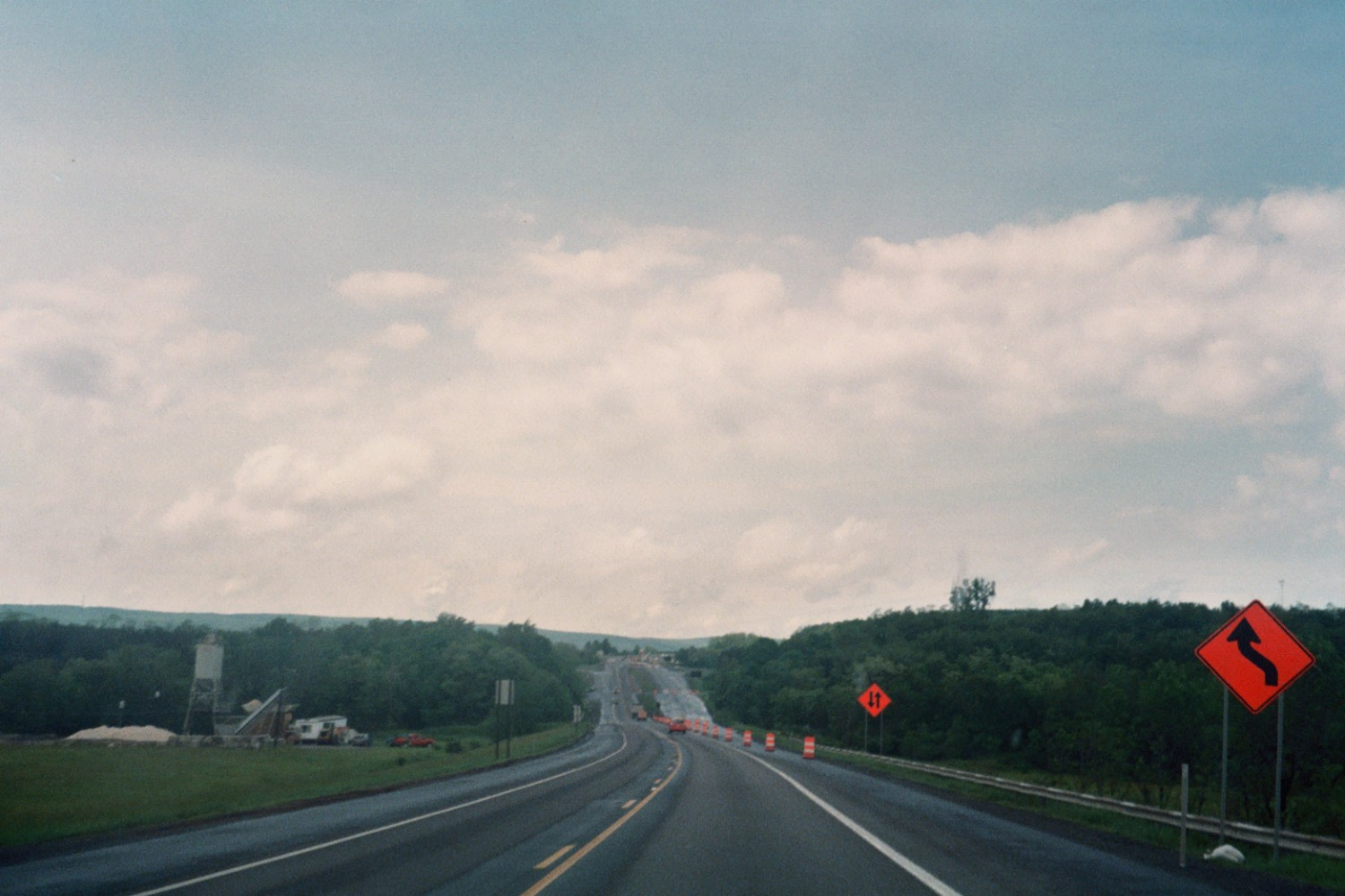 Photograph of Maryland Route 36 between Maryland Route 55 and Interstate 68 south of Frostburg, Maryland. As of spring 2008, the four-lane section of Route 36 is narrowed to two lanes while repair work is done on the I-68 overpass.